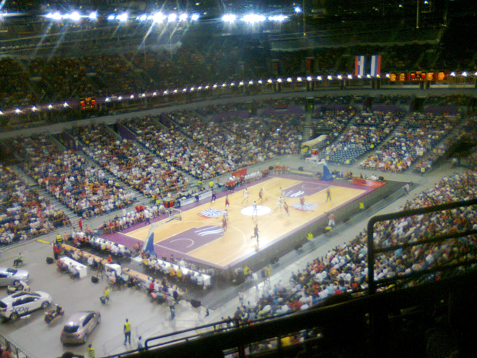 Serbia-Russia basketball friendly match, Kombanka Arena, Belgrade, 2013/08/12.